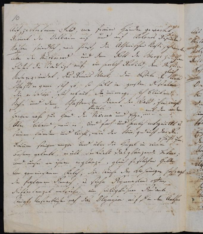 Manuscript of Friedrich Hölderlin: Der Archipelagus, page 10. From Homburg